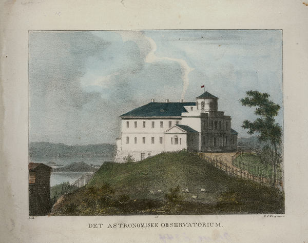 Painting of the Observatory which was erected 1831-1833 for the use of professor Christopher Hansteen.